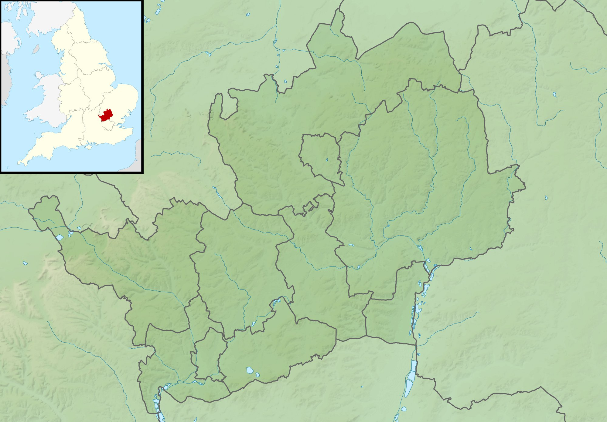 Relief map of Hertfordshire, UK. Equirectangular map projection on WGS 84 datum, with N/S stretched 160% Geographic limits: West: 0.80W East: 0.35E North: 52.09N South: 51.59N